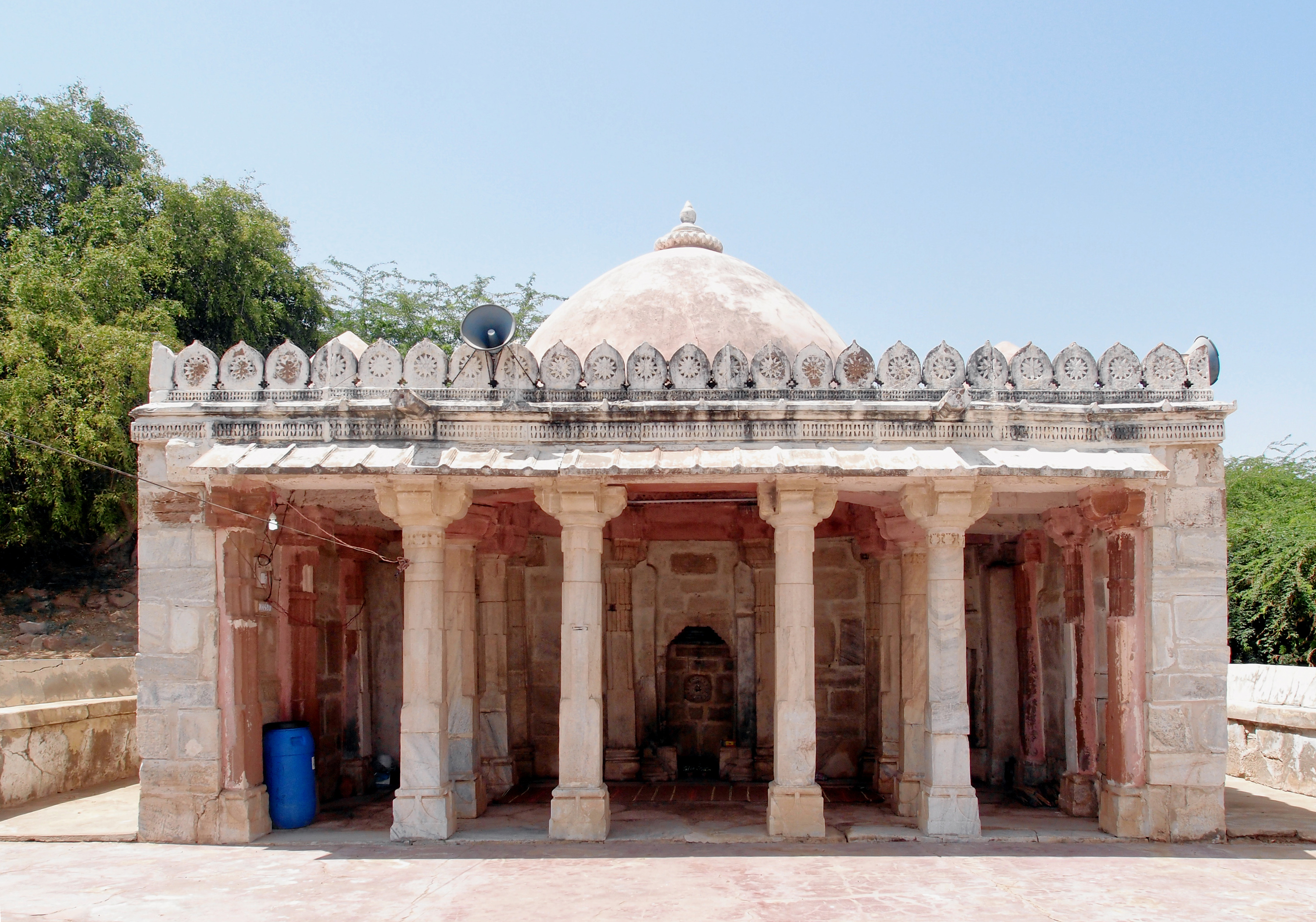 The Bhudesar Mosque in Bhodesar near Pakistani southwestern city of Nagarparkar. Bhodesar was the region's capital during Sodha rule. The mosque was built in the Hindu/Jain architect style by Nasir-ud-Din Mahmud Shah of Gujarat in 1505 AD.